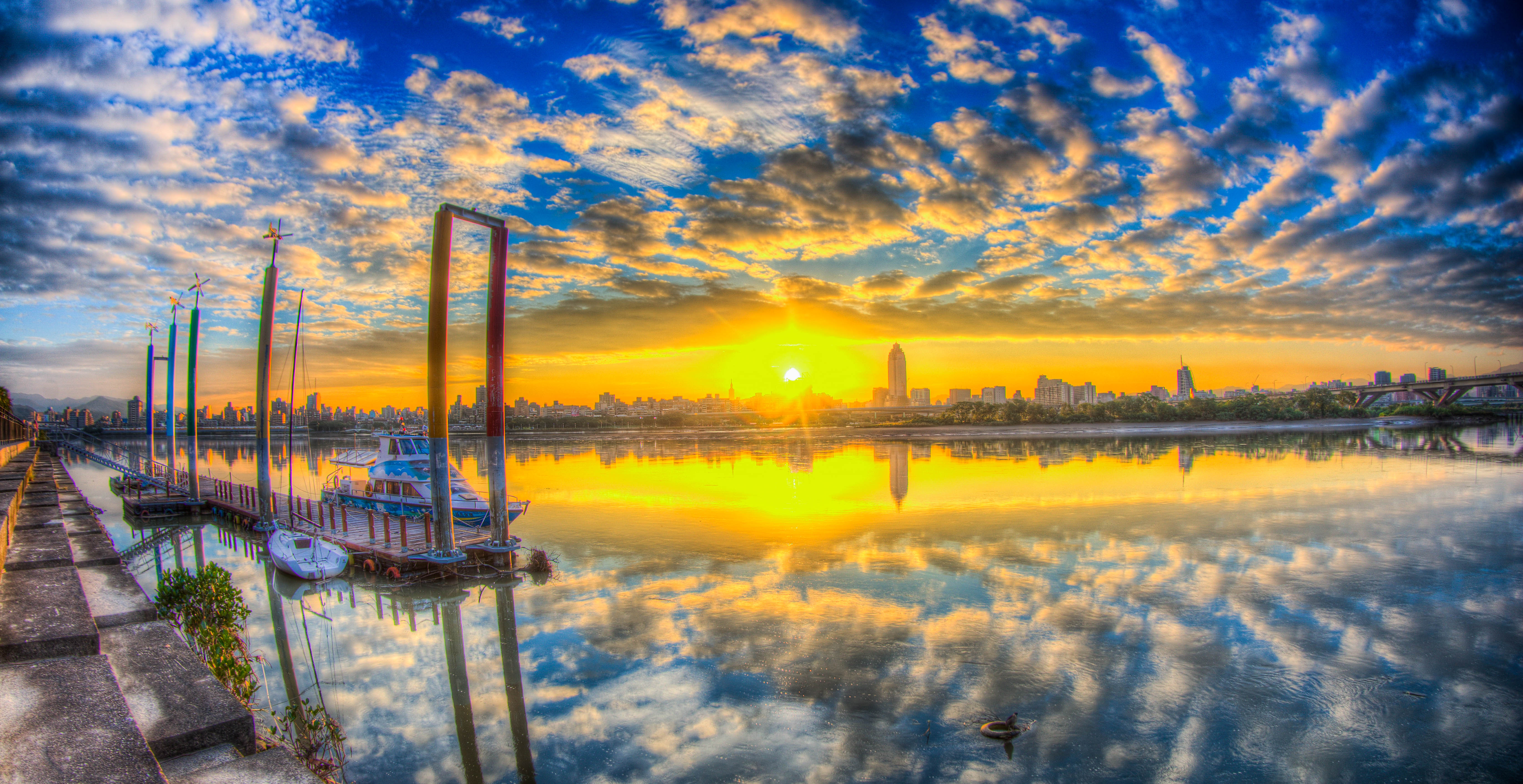 Panoramic view of sunset of Zhongxiao Wharf in 2015